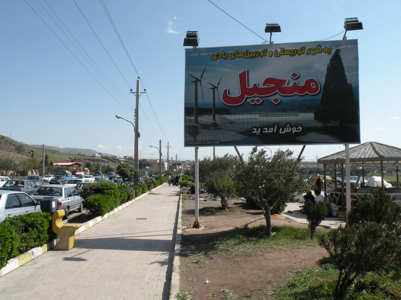 شهر منجیل - فرستنده - منجیل نیوز